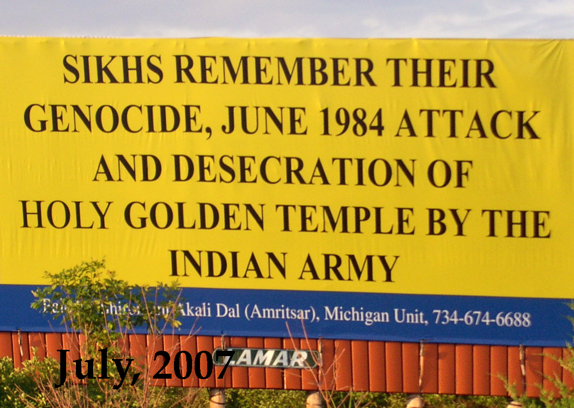 alongside either I-75 or I-280 northbound near the Michigan/Ohio border, July, 2007, memorializing the deaths in Operation_Blue_Star